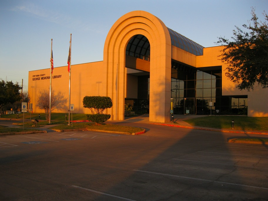 Photo shows the George Memorial County Library building at Farm to Market Roads 762 and 1640. View is toward the north.